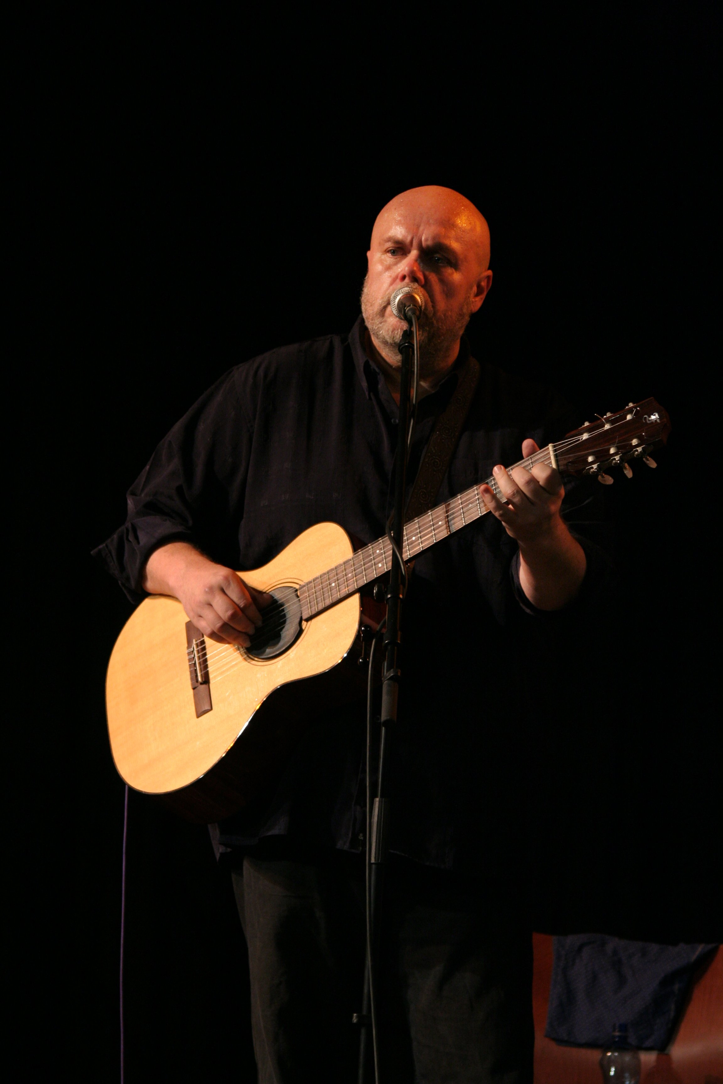 Michal Němec, Jablkoň concert at Municipal library of Prague